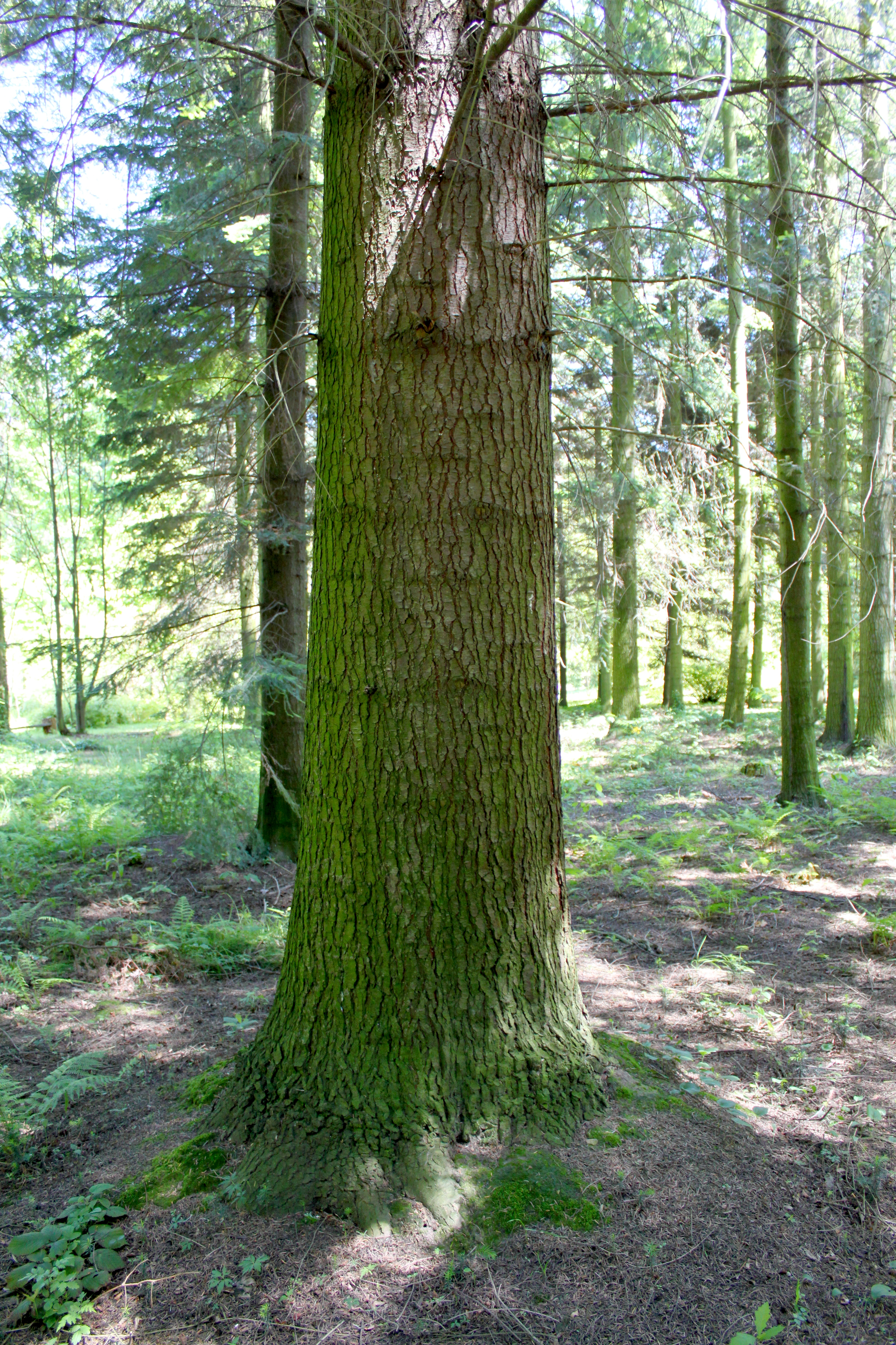 Grand Fir (Abies grandis trunk in Rogów Arboretum, Poland